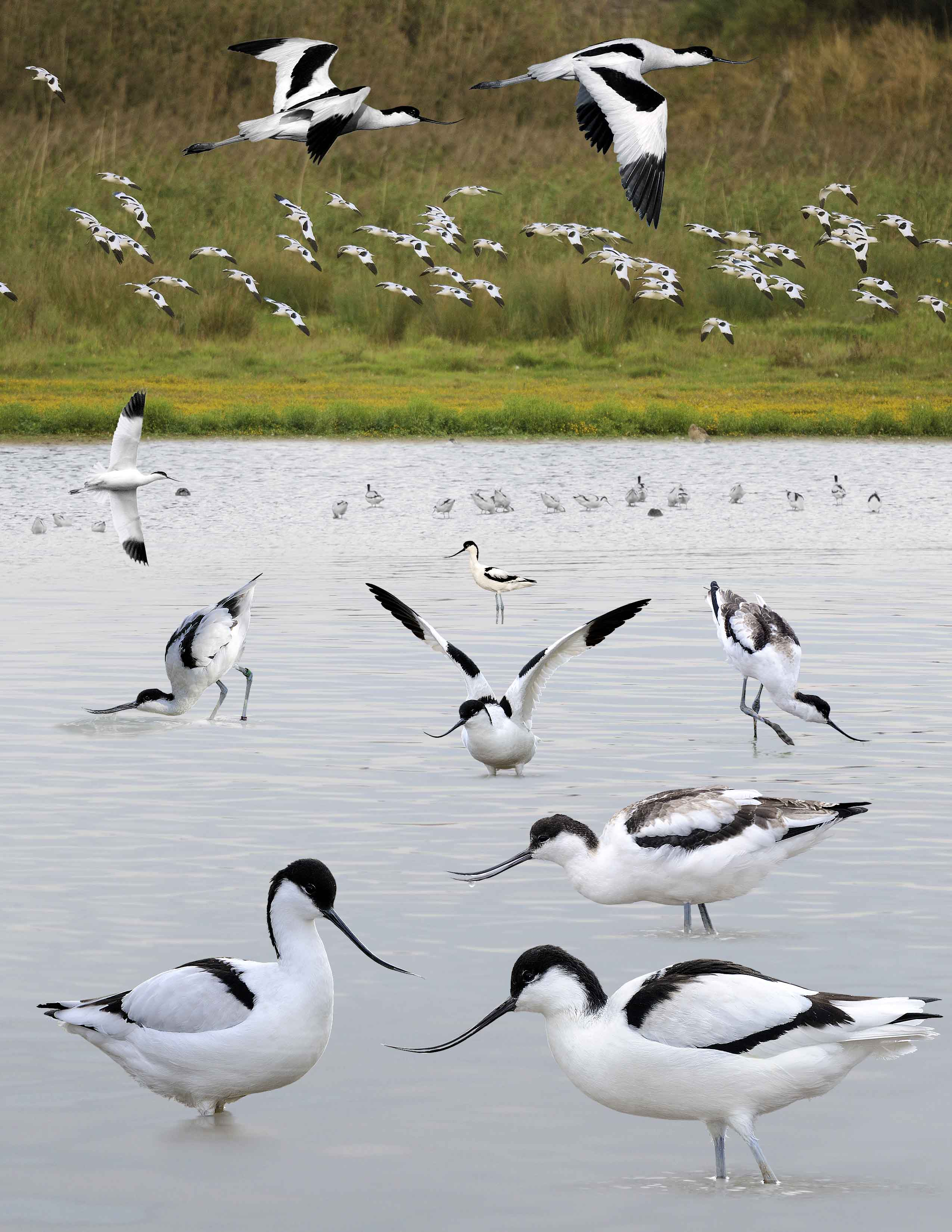 Avocet from the Crossley ID Guide Britain and Ireland